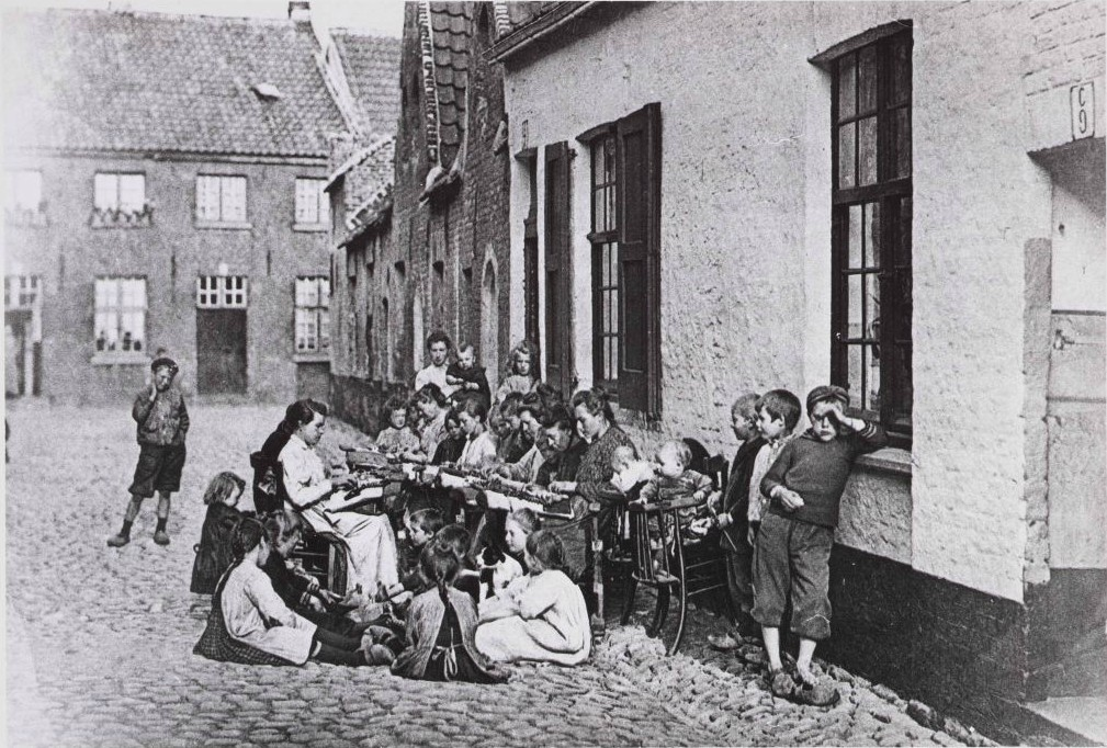 Kantklossters, Koolbranderstraat, Brugge